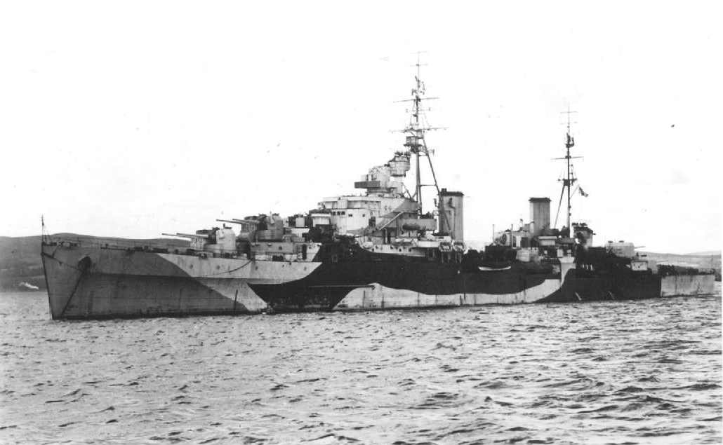 British light cruiser HMS Spartan newly completed off Barrow-in-Furness, UK.